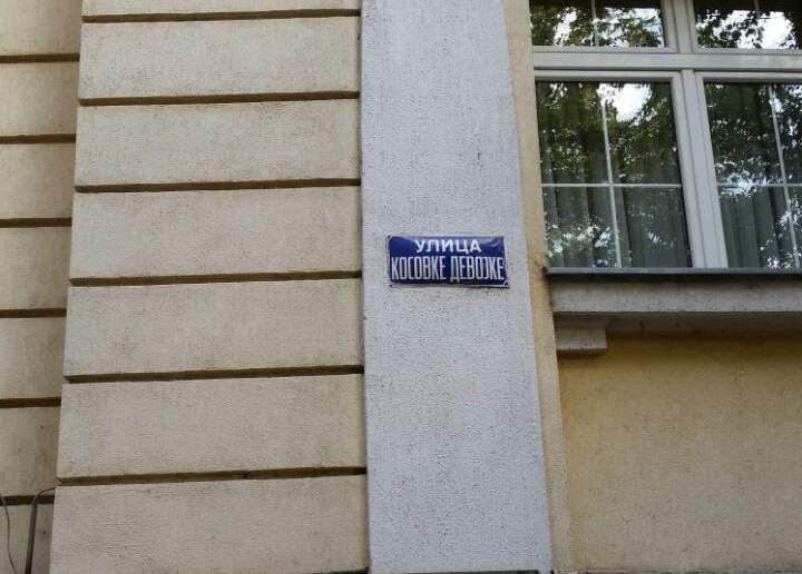 Street name sign in Kosovke devojke street in Belgrade, Serbia.